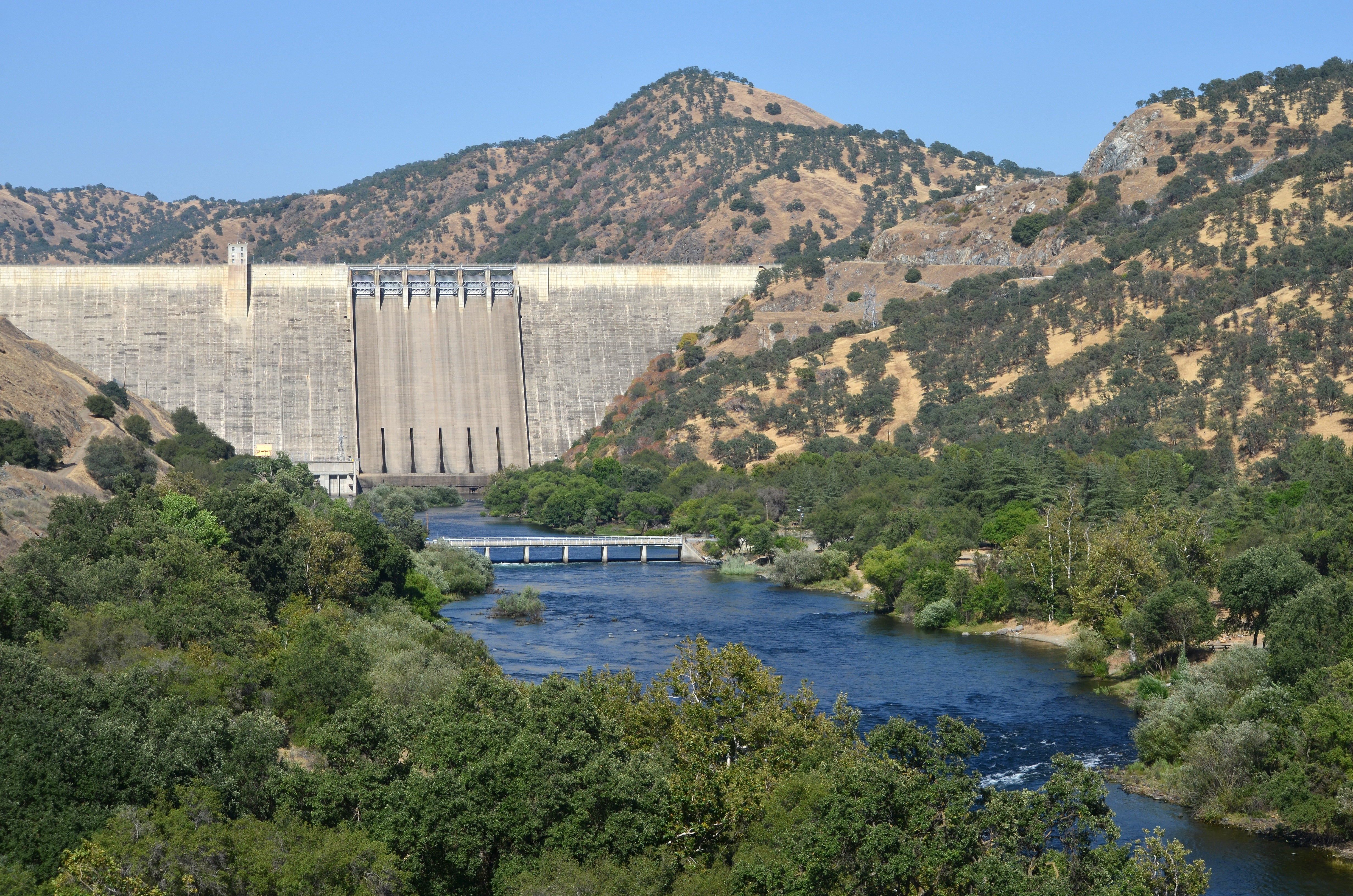 A view of Pine Flat Dam near Fresno, Calif., June 17, 2013. Owned and operated by the U.S. Army Corps of Engineers Sacramento District, Pine Flat Dam reduces flood risk to Fresno County and stores water used for water supply and hydroelectric power. (U.S. Army photo by John Prettyman/Released)